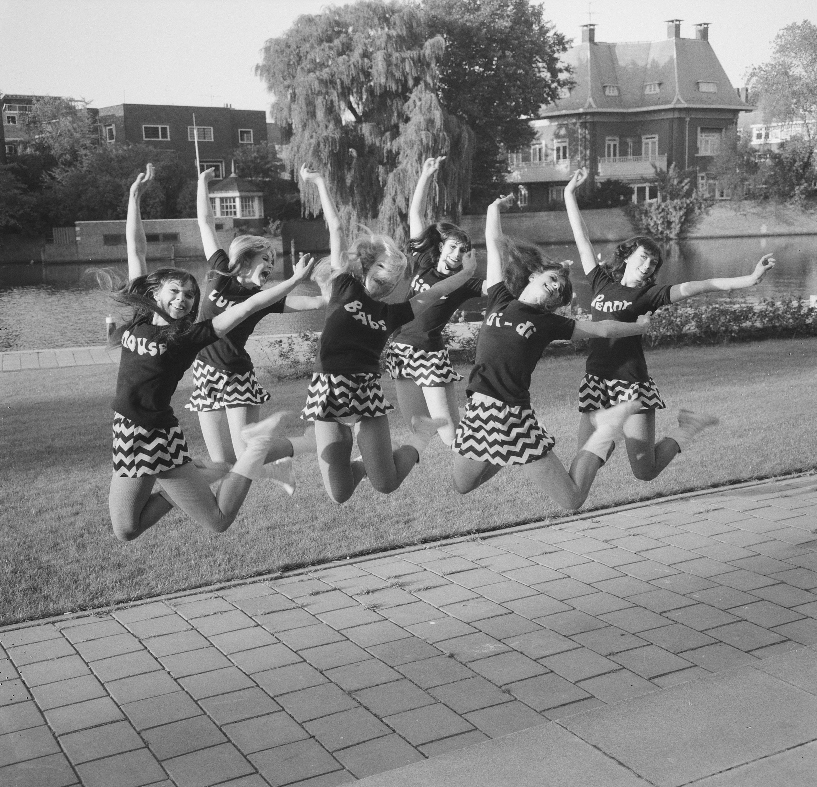 Beat Girls dancing facing Amsterdam Hilton. From left: Flick Colby (Mouse), Lorelly Harris (Lulo), Babs Lord (Babs), Diane South (Diane), Dee Dee Wilde (Di-di) and Penny Fergusson (Penny)